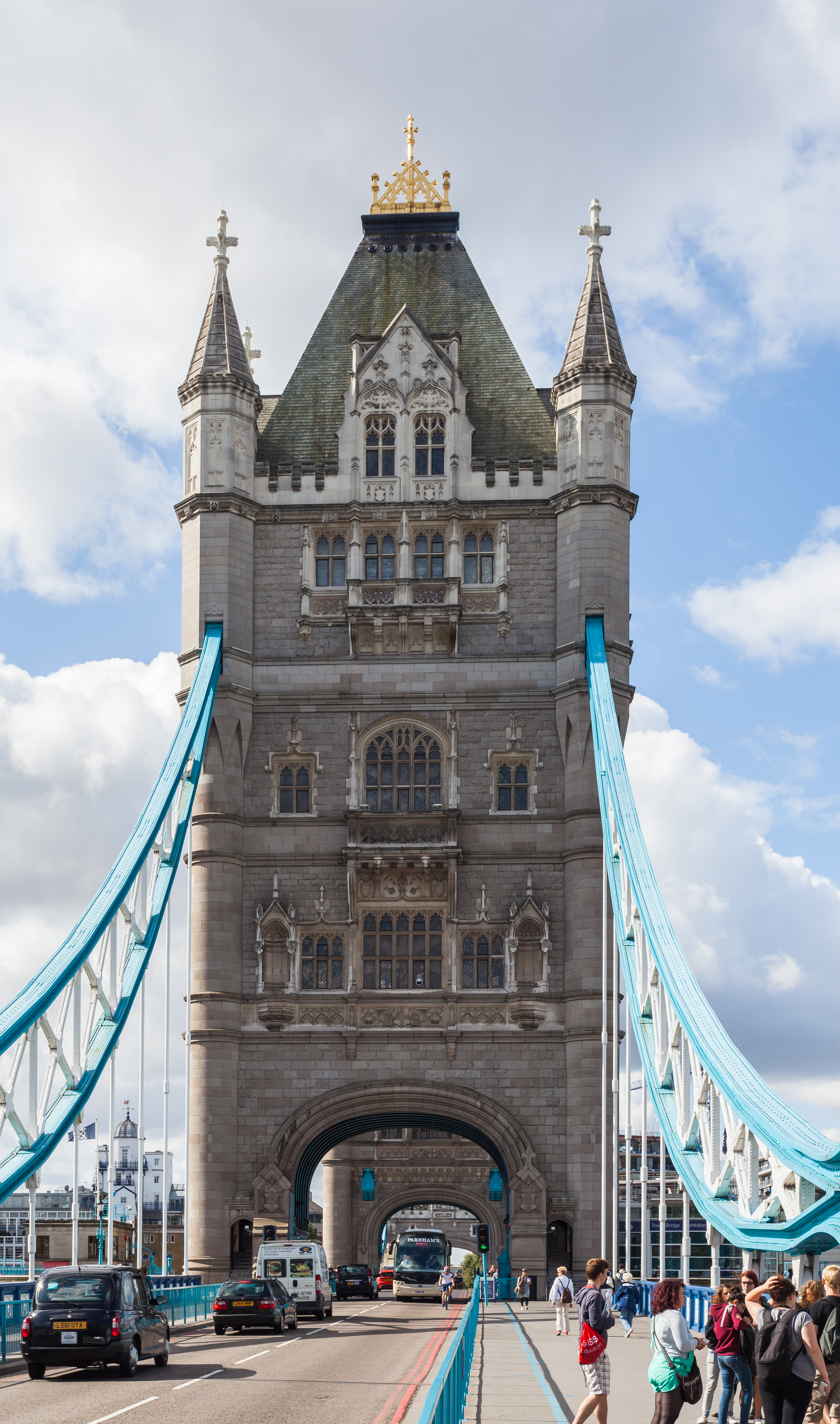 Tower Bridge, London, England